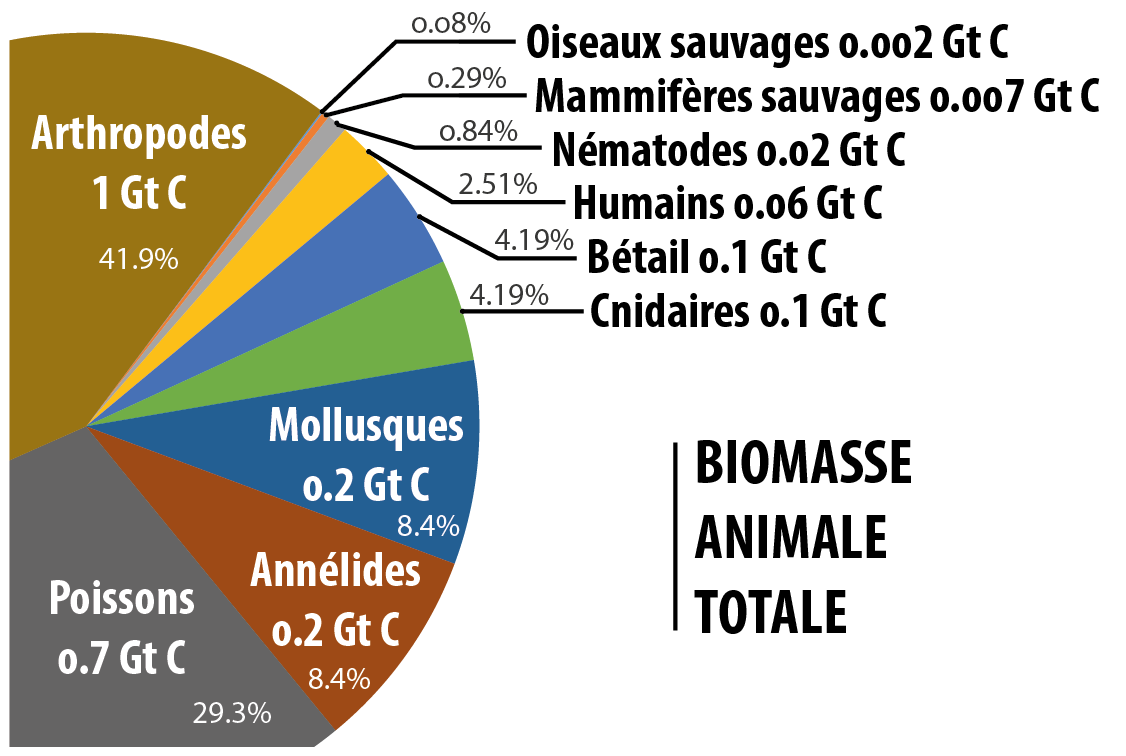 World animal biomass in Giga tons of carbon, data used to make graph from: Bar-On, Yinon M., Rob Phillips, and Ron Milo. "The biomass distribution on Earth." Proceedings of the National Academy of Sciences 115.25 (2018): 6506-6511.